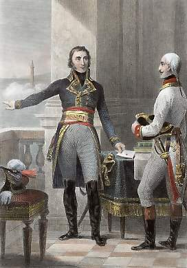 General Massèna at the siege of Genoa (1800)